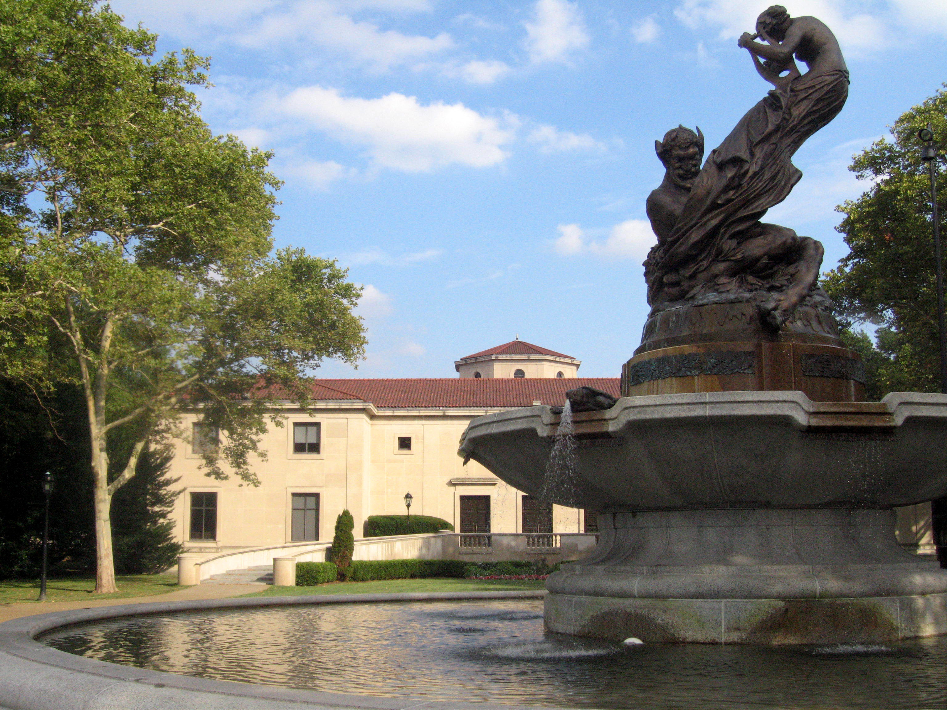 With Mary Schenley Fountain